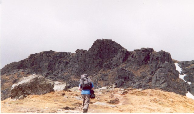 The Spearhead, Beinn Narnain. The name given to the central part of these Cliffs which you eventually see when climbing this peak in the Arrochar Alps. The summit is at the top and the way up through the rocks although a scramble isn't as bad as it looks.